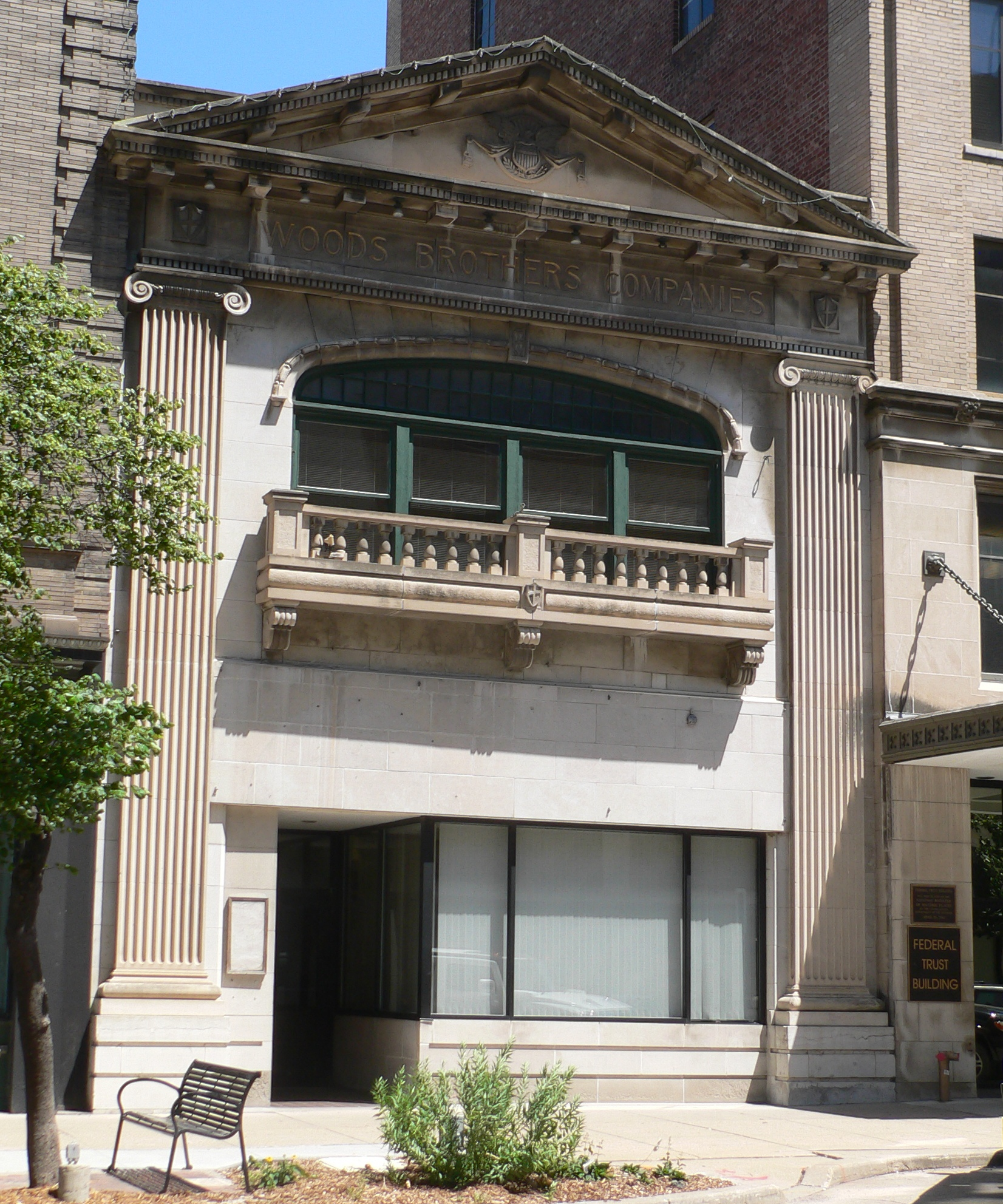 Woods Brothers building, located at 132 S. 13th Street in Lincoln, Nebraska; seen from the northwest.